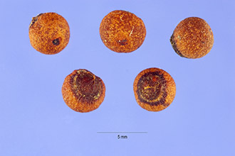 Liriopr muscari seeds